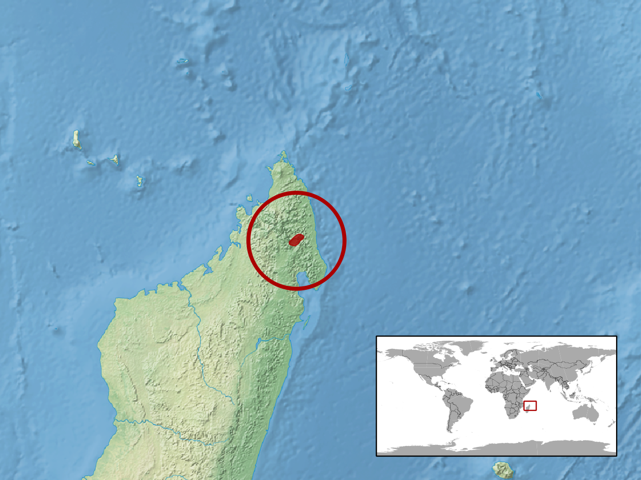 geographic distribution of Pseudoacontias angelorum